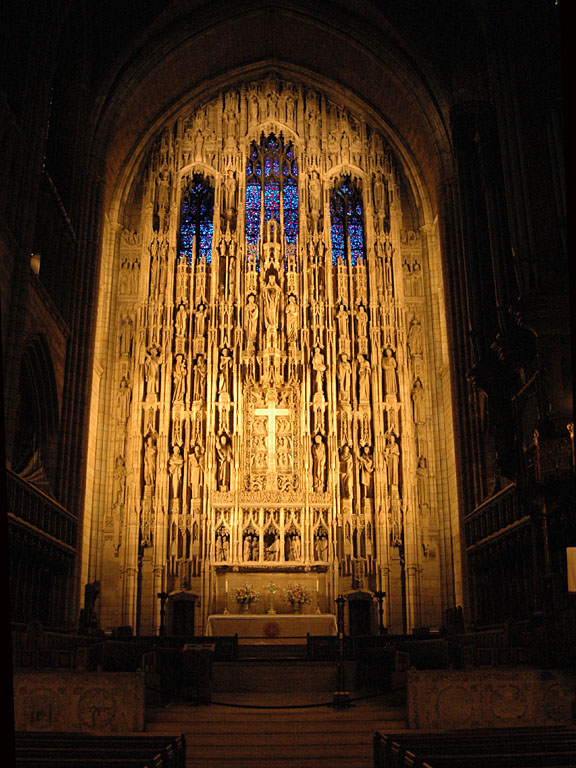 The reredos at St. Thomas Church, Manhattan, NYC